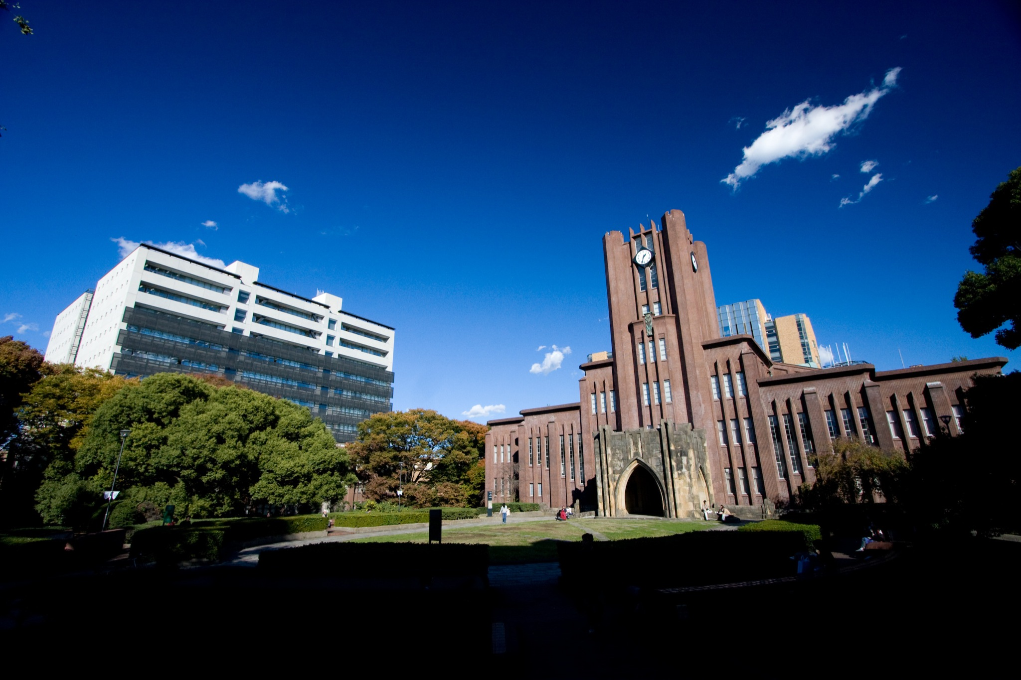 Yasuda hall, University of Tokyo, Japan. 東京大学の安田講堂.